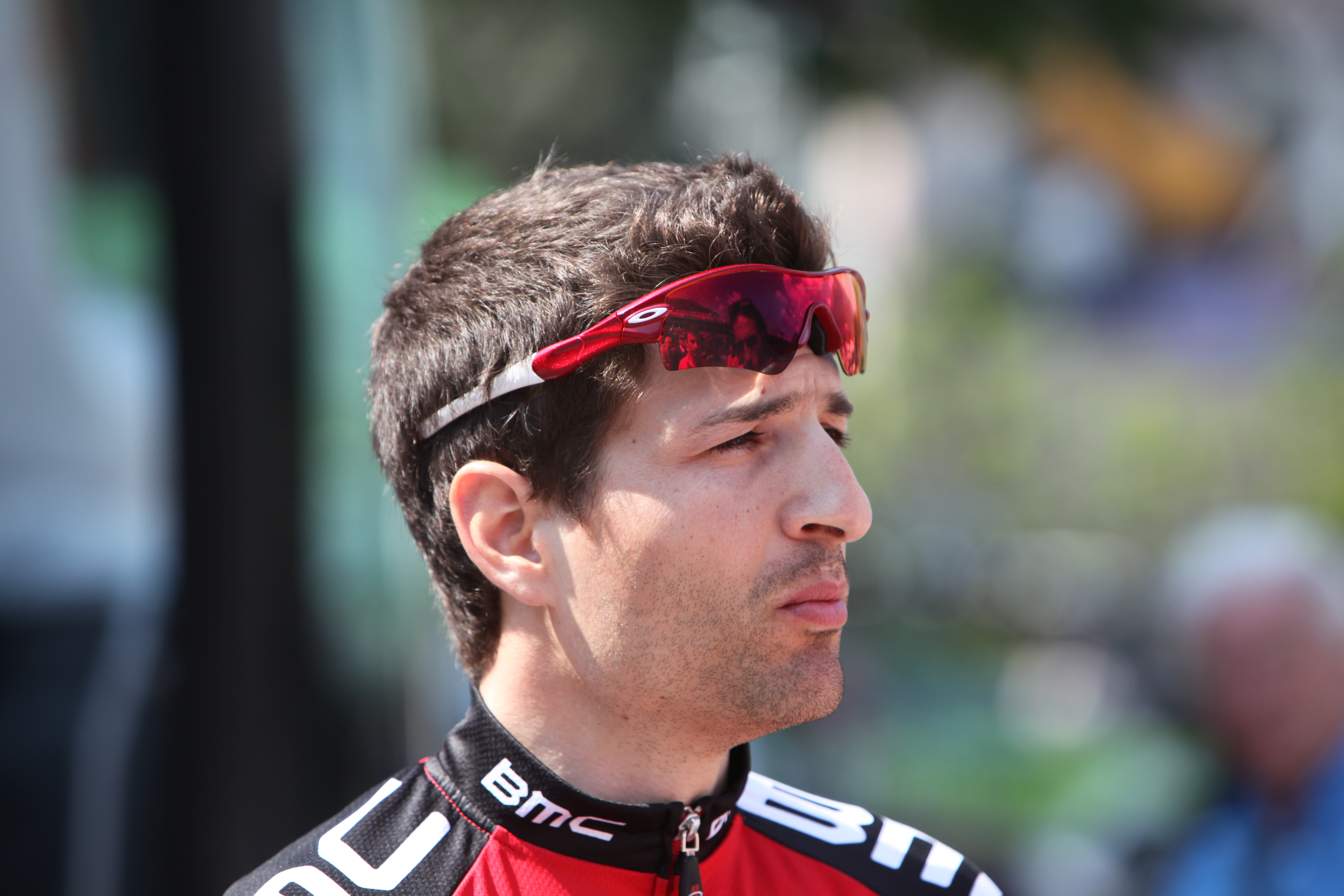 Johann Tschopp at the prologue of the Tour de Romandie 2011